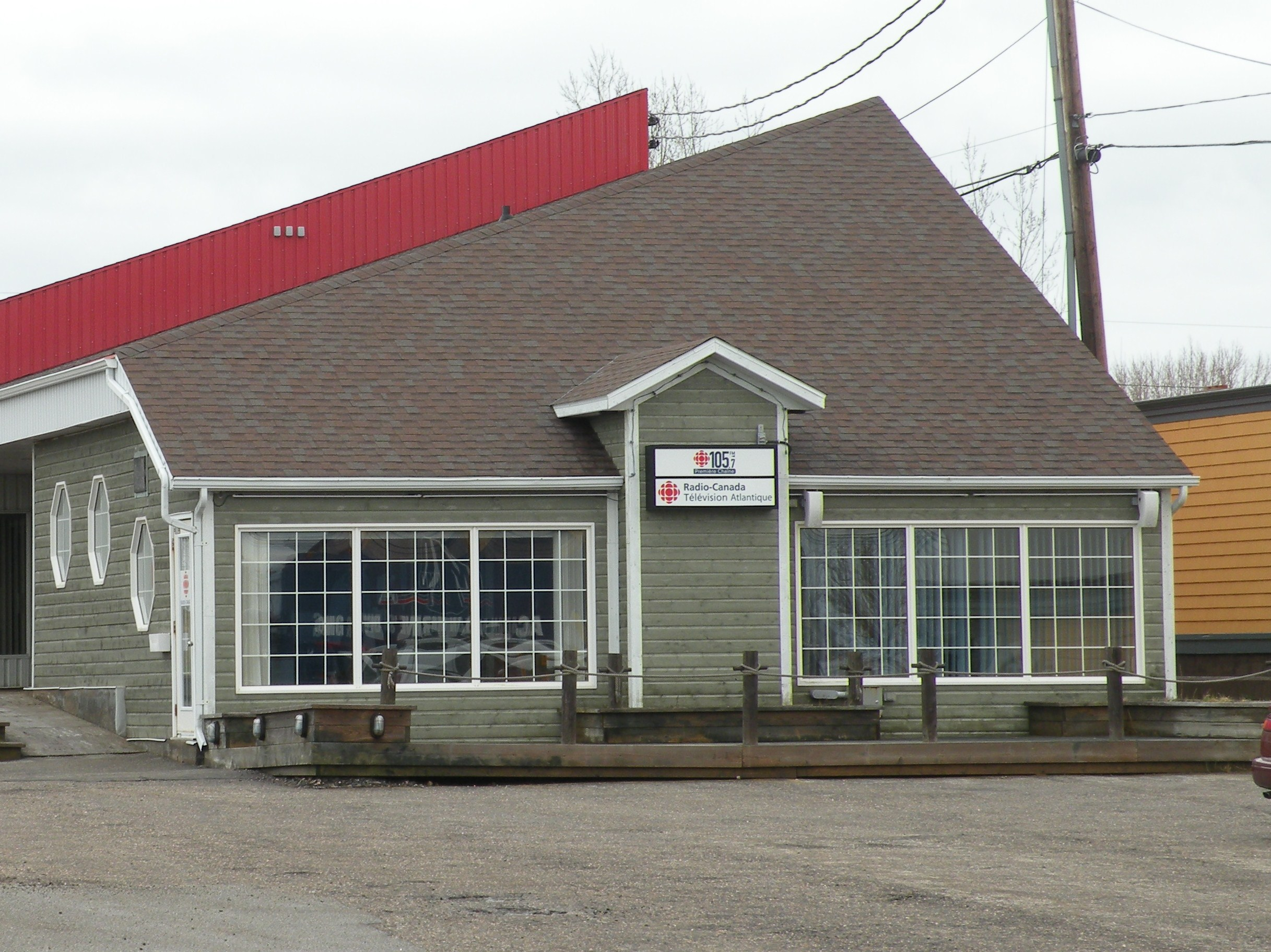 Radio-Canada Acadie facilities in Caraquet, New Brunswick, Canada.